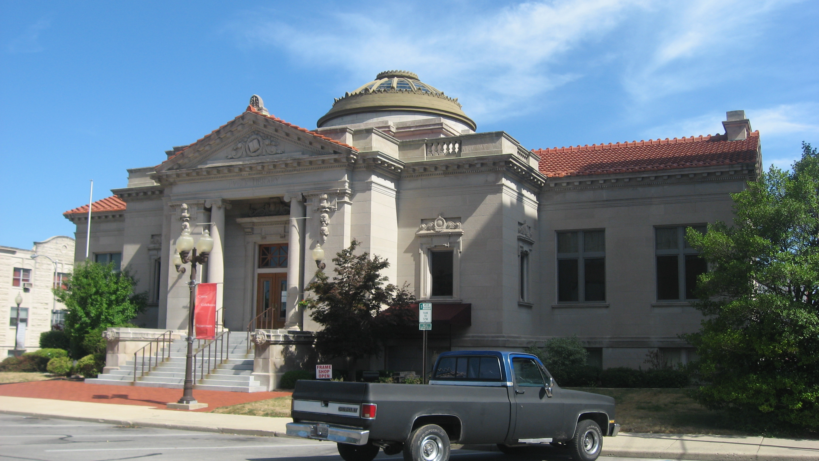 Front of the Anderson Center for the Arts (formerly the Anderson Carnegie Library, located at 32 W. Tenth Street in Anderson, Indiana, United States. Built in 1905, it is listed on the National Register of Historic Places.